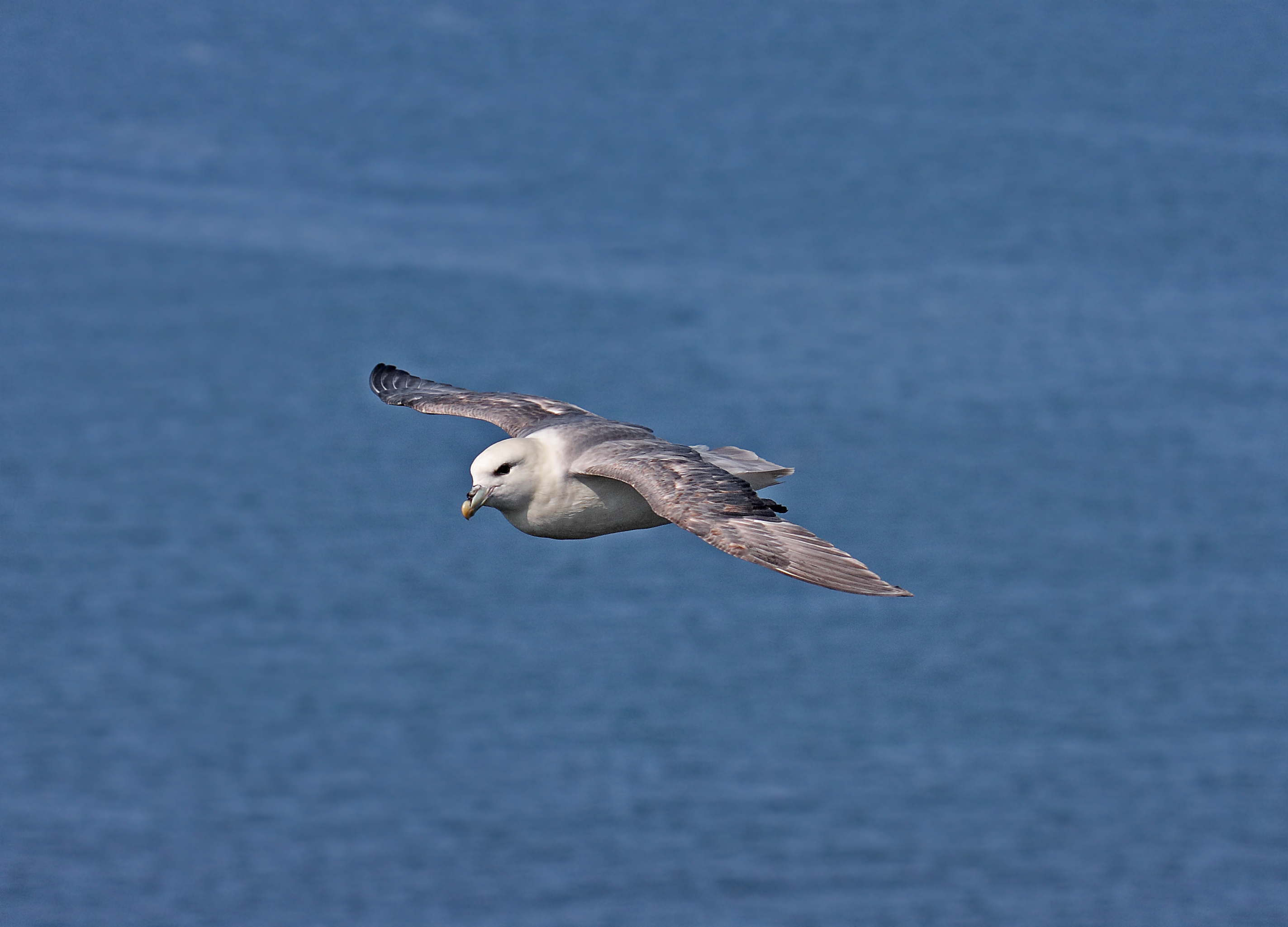 Northern Fulmar